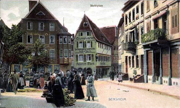 The market place of the city of Bensheim (Hesse)